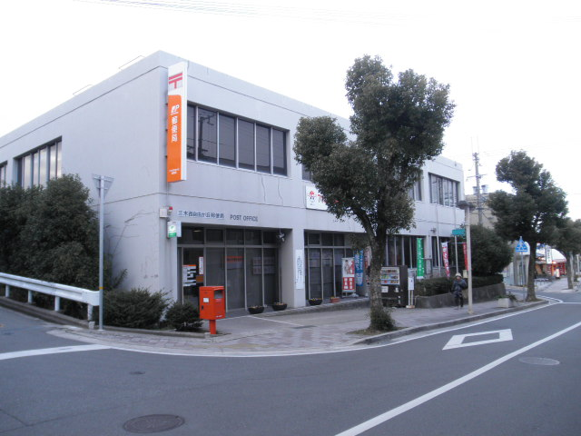 Miki Nishijiyugaoka post office